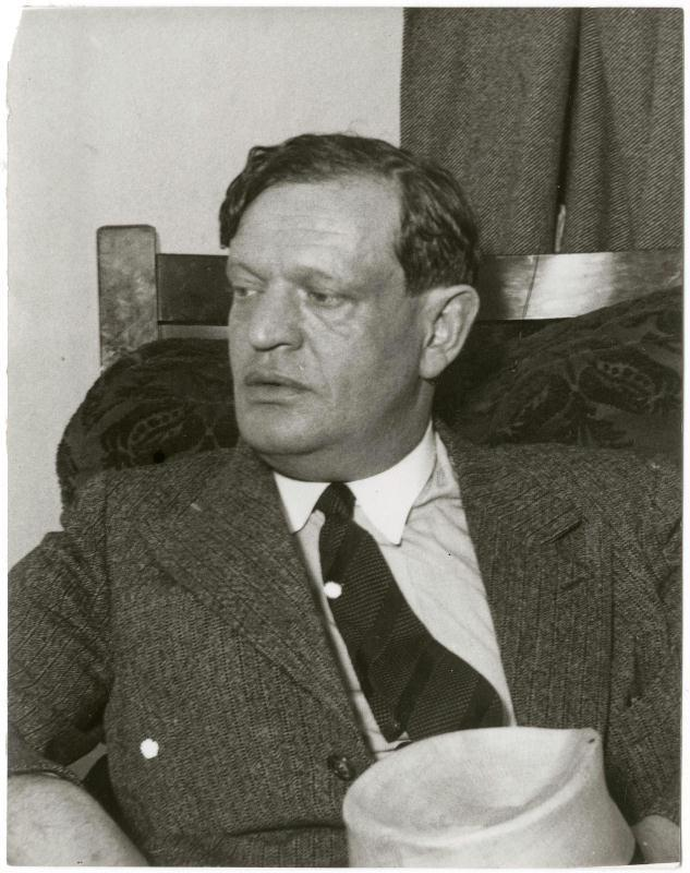 Frigyes Karinthy a Hungarian Author, poeat